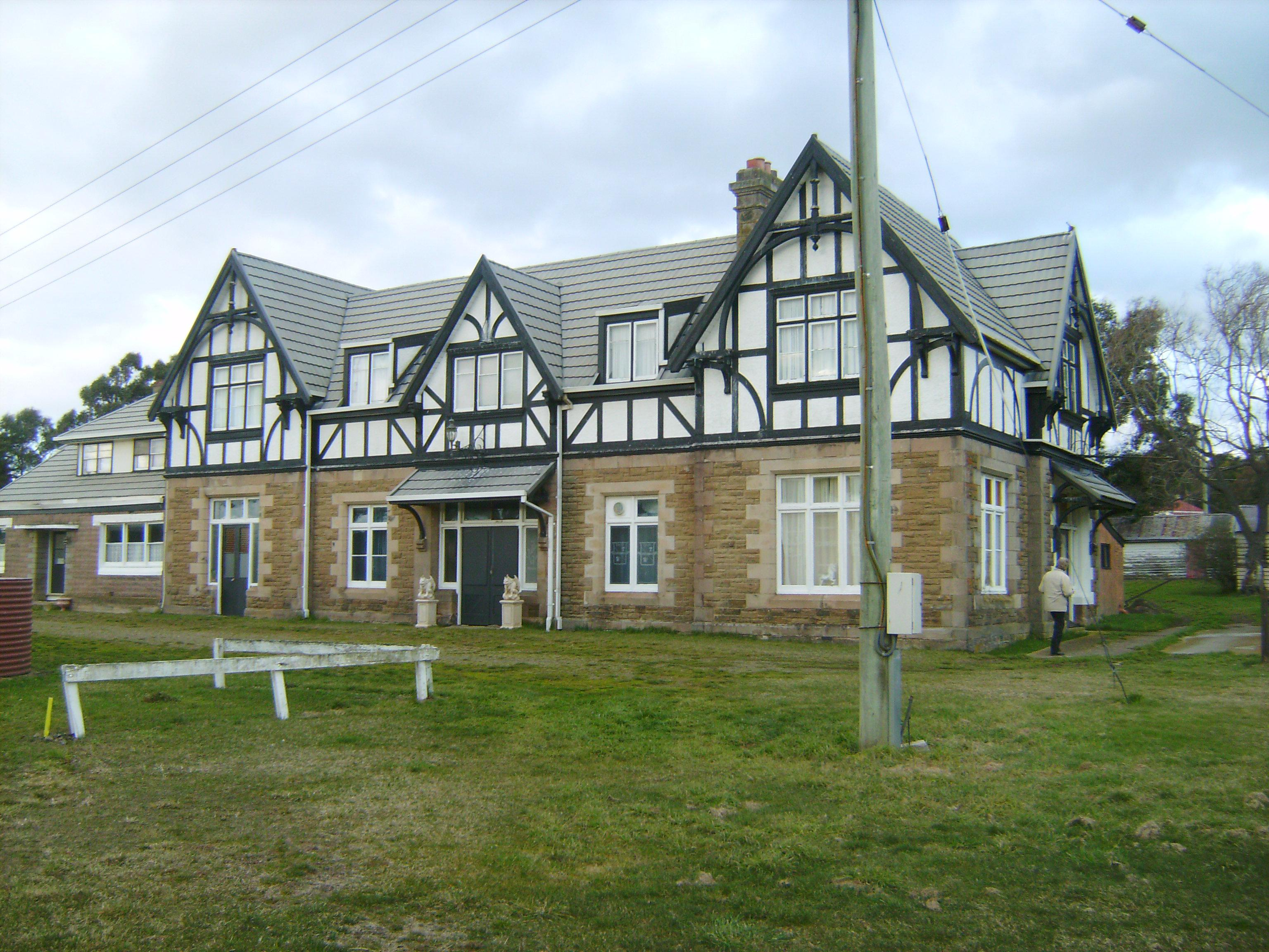 The Parattah Hotel, built in 1880